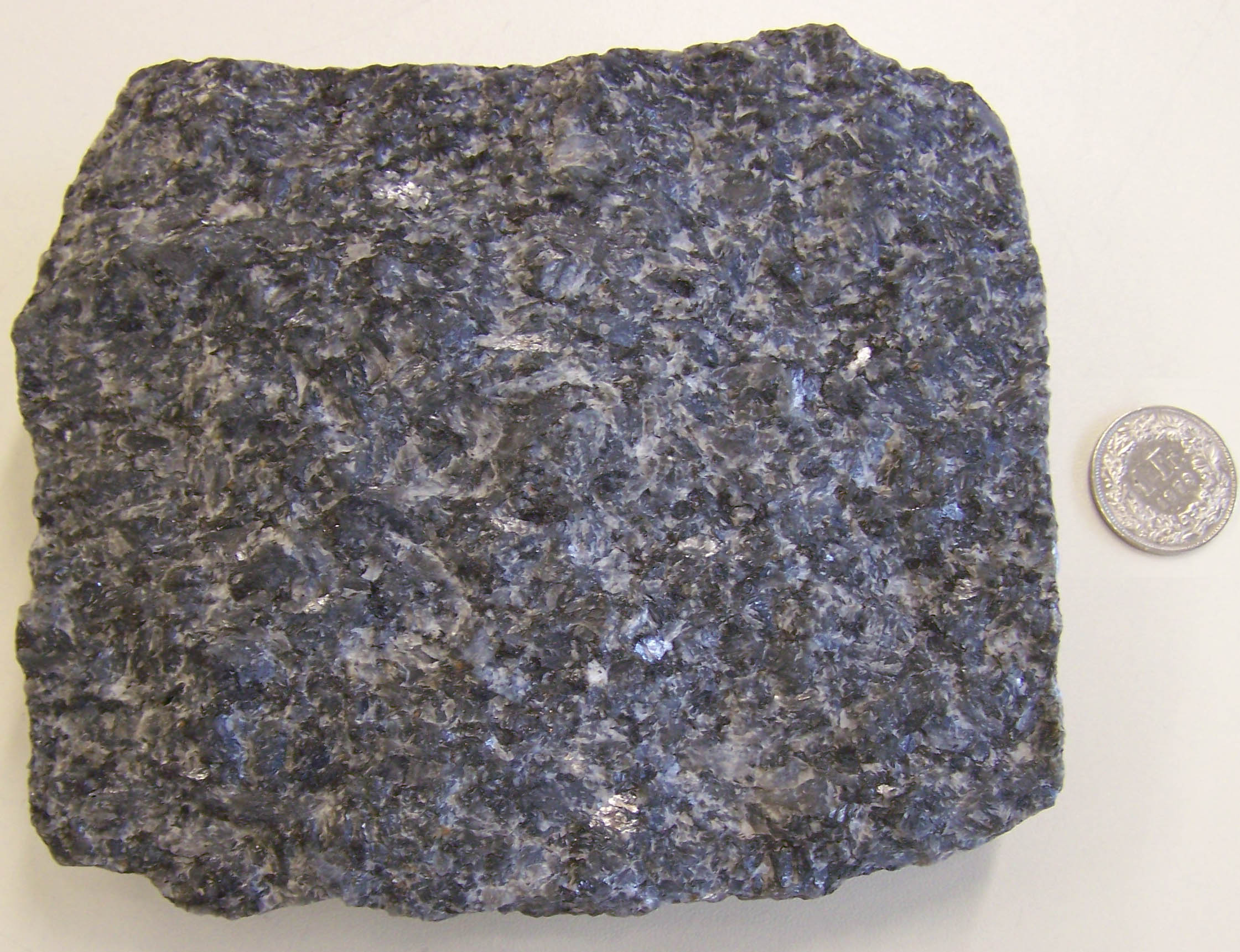 Larvikite (monzonite with augite) from Larvik, Cvedalen, Norway. Collection of the Université de Neuchâtel. Coin of 1 Swiss franc (diameter 23,20 mm) for scale.